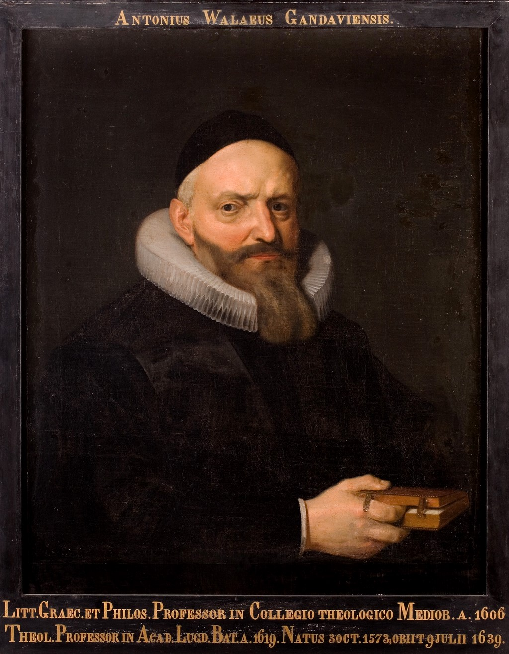 Painting of Antonius Walaeus by David Bailly (1584-1657)